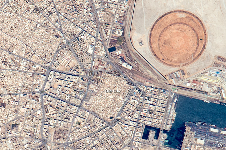 An astronaut aboard the International Space Station took this photograph showing the radiating street patterns of Tunisia’s second largest city, Sfax (population about 330,000). The radial pattern focuses on the ancient walled city—the “medina”with its small blocks, narrow streets, and even a slight color difference of the rooftops. Sfax is a major port and home to Tunisia’s largest fishing fleet; for scale, the fishing port is 1.1 kilometers (0.7 miles) long. Across the bottom of the full scene, the bed of an ephemeral river stretches to the sea. For the astronauts, the most recognizable features of Sfax from space are the brilliantly colored salt ponds south of the old city and the new circular earth works of the Taparura redevelopment project just to the north. Taparura draws its name from the ancient town on which Sfax now stands. Engineers and developers have reclaimed many hectares of land along 5 kilometers (3 miles) of shoreline, reengineering a polluted and marshy area alongside the city’s railroad tracks.